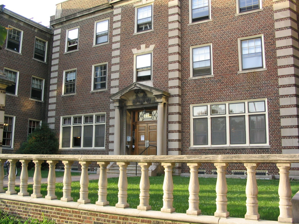 The exterior of Breckinridge House, a student housing building at the University of Chicago